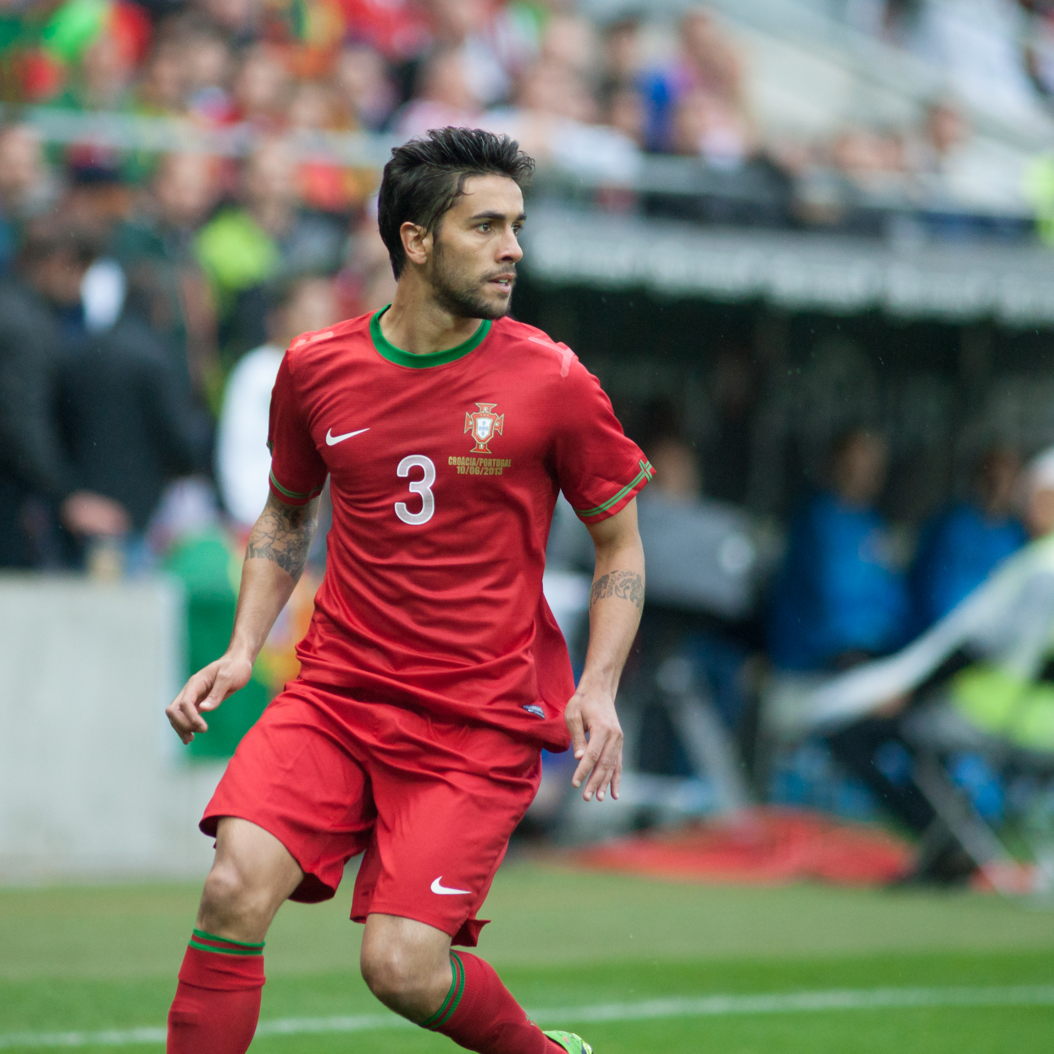 Croatia vs. Portugal, 10th June 2013